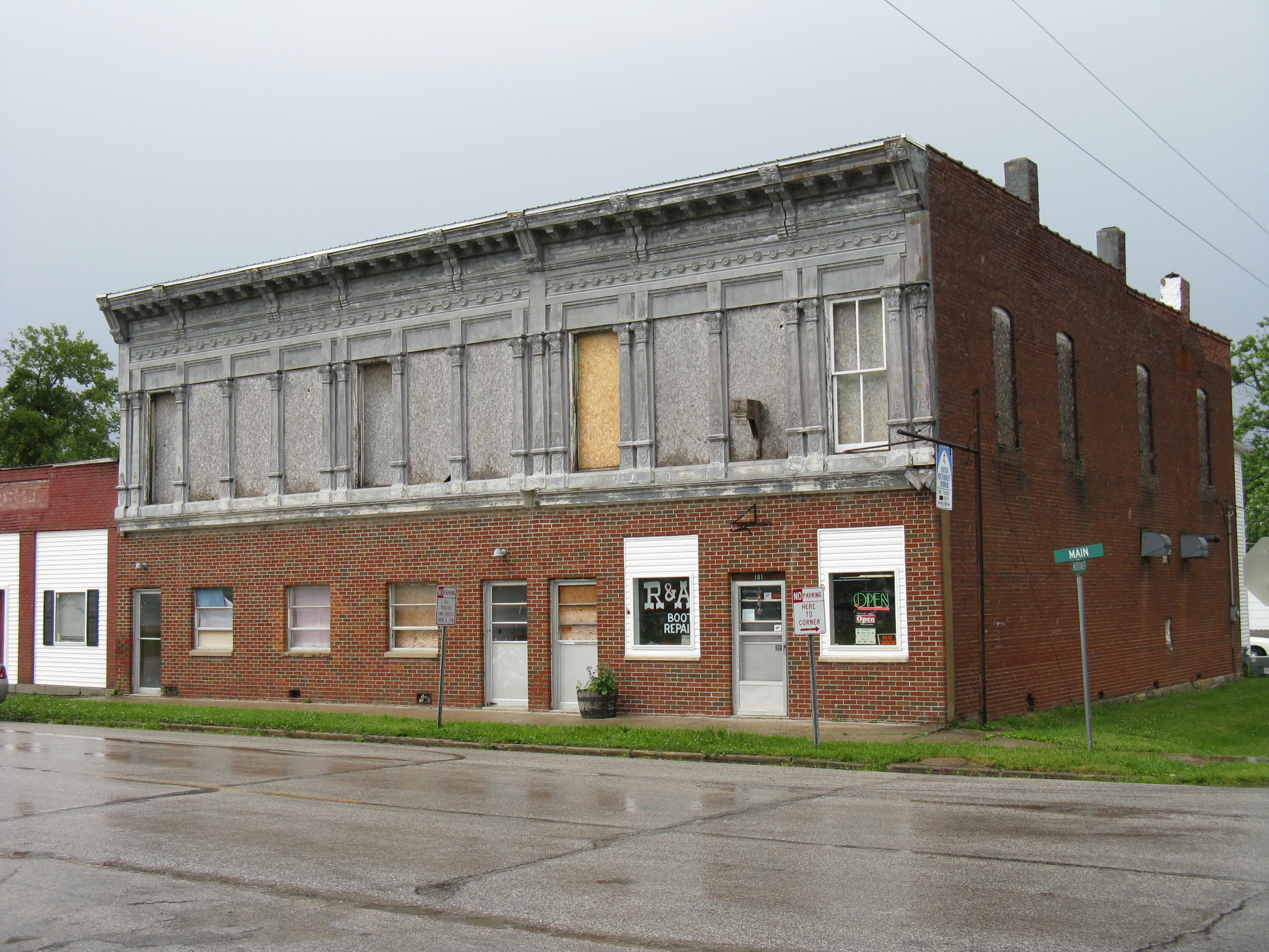 An iron-front store building in New Florence, Missouri. The facade was manufactured in St. Louis by Mesker Brothers.